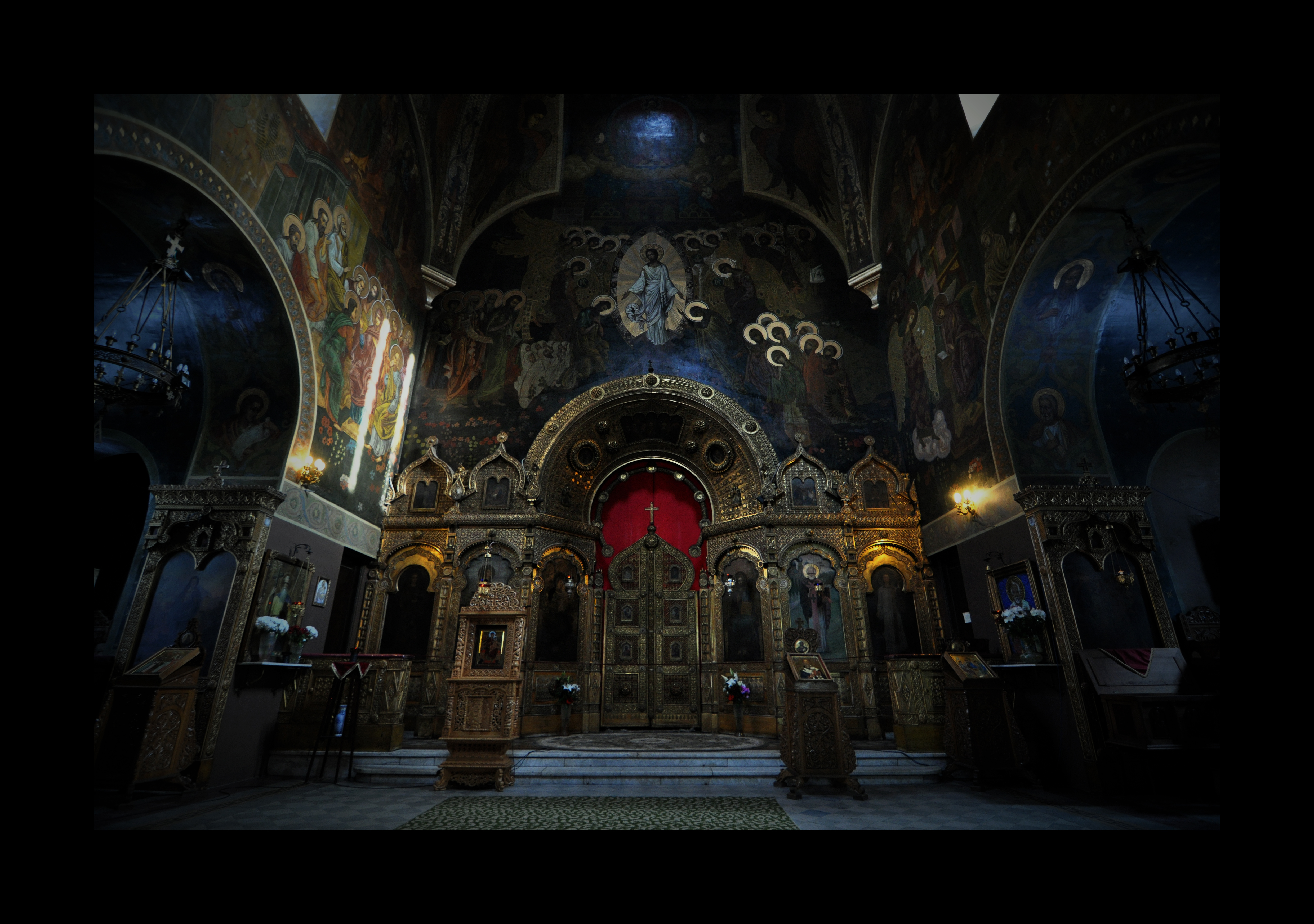 St. Nicholas Russian Church [finished in 1909], Bucharest, Romania Creator:V. A. Prevbrajenski